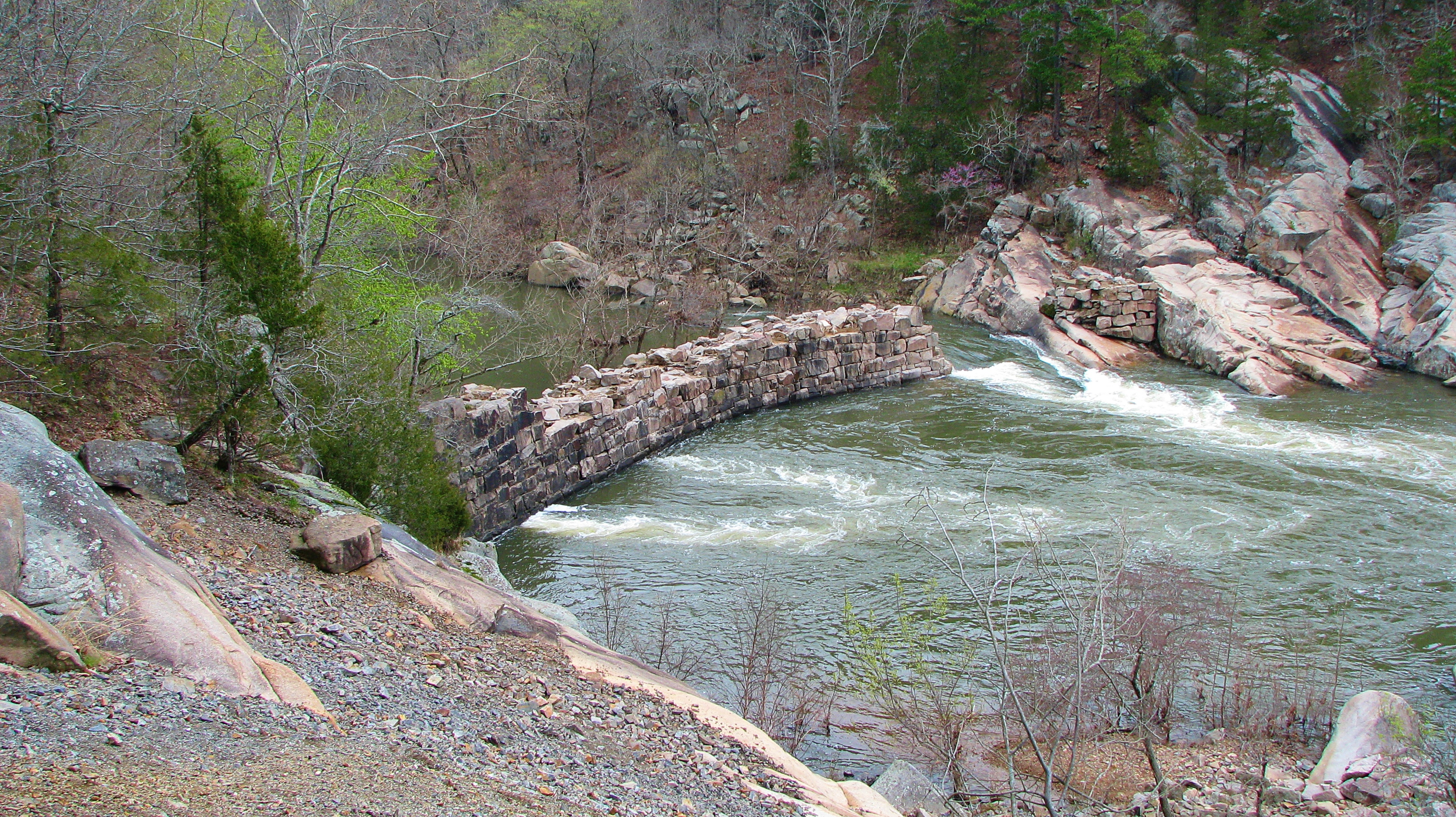 Silver Mine Dam on the upper St. Francis River in Missouri, USA. (April 2009)